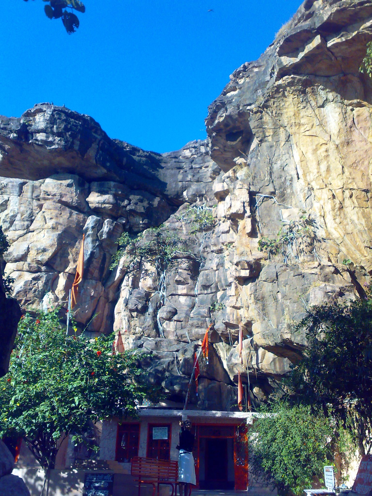 Pre - historic rock shelters